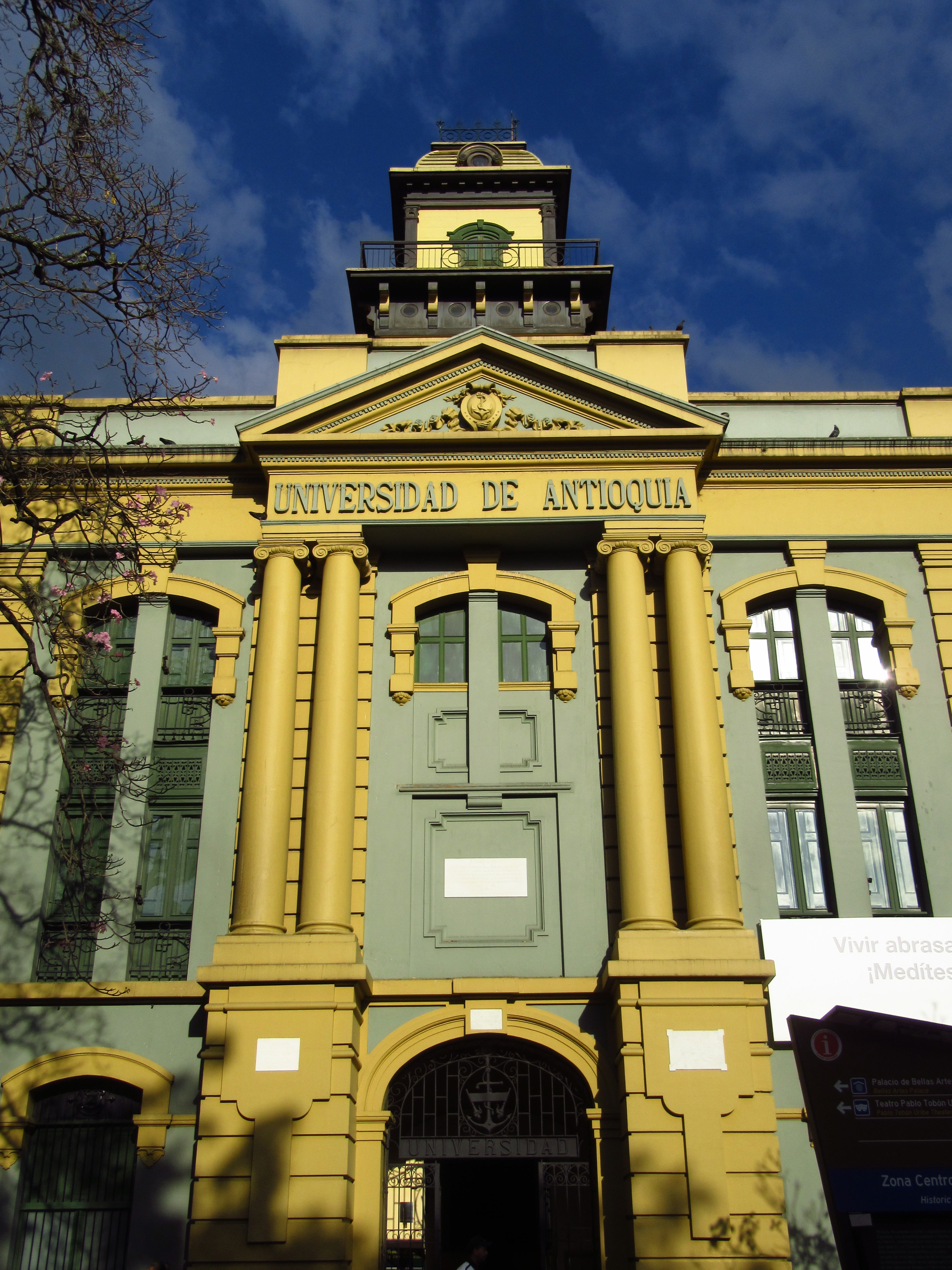 Medellín